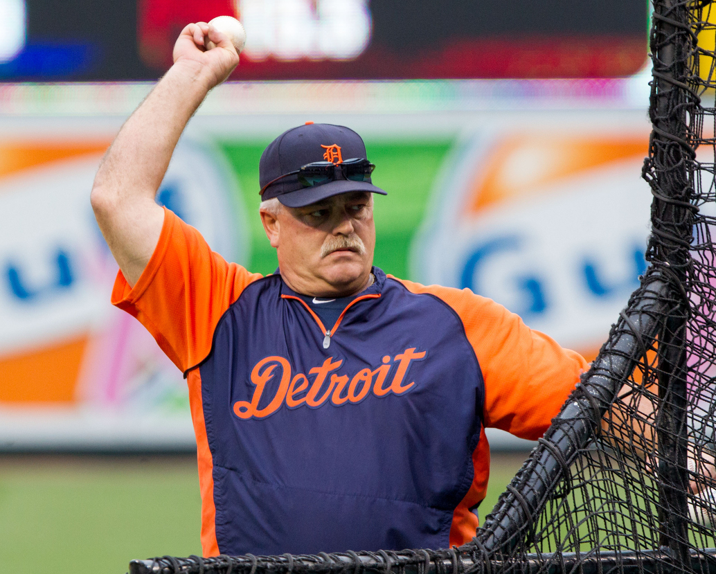 Detroit Tigers coach Mike Rojas – Tigers at Orioles July 13, 2012